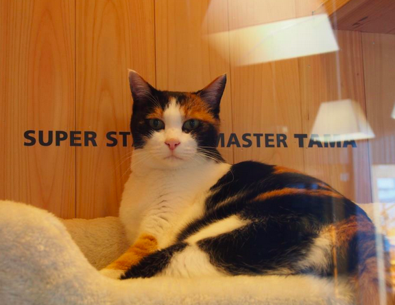 Tama the stationmaster cat at Kishi Station on the Wakayama Electric Railway, in Kinokawa, Wakayama, Japan